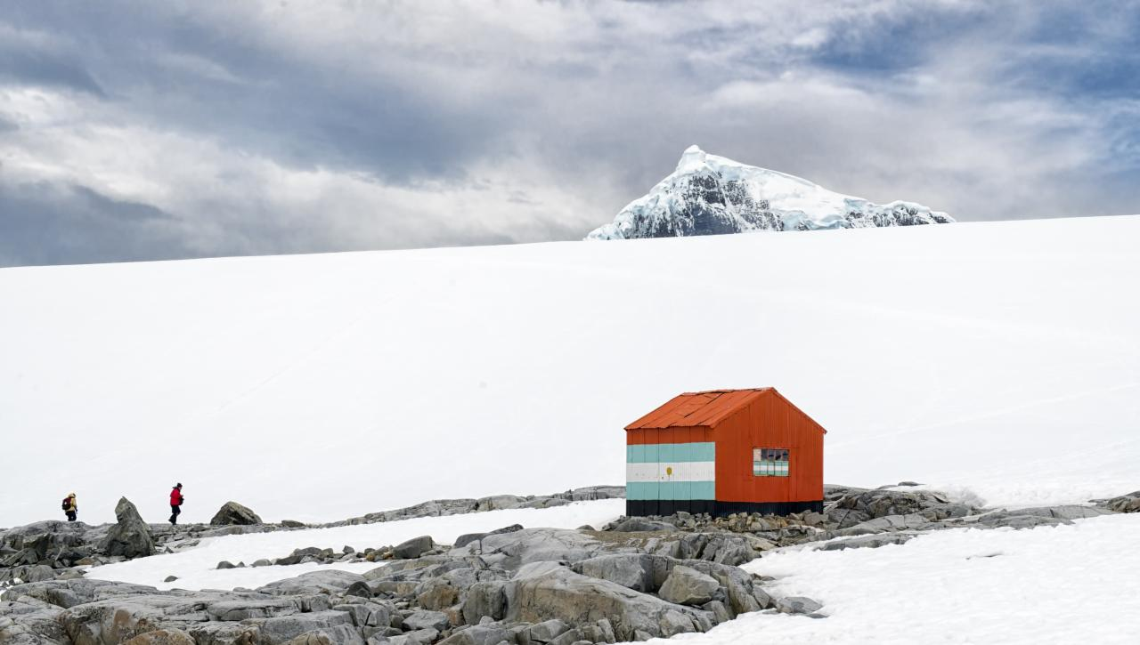 Two structures were erected on the shores of Dorian Bay; the Argentinean Refugio Bahia Dorian in 1957, and a larger building known as the Damoy Hut in 1975, where it served flights to and from a summer-use ice-strip for aircraft used before the sea-ice cleared near Rothera Base. The Damoy hut and ice-strip were closed in 1995: the building is now listed as an Historic Site and Monument and is maintained and administered by the United Kingdom Antarctic Heritage Trust.